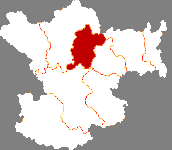 Location of Xihe county in Longnan city, China